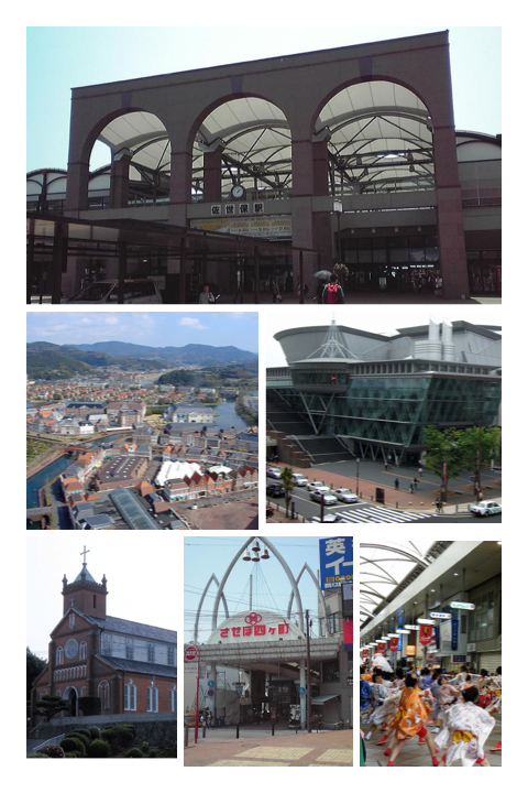 From top to bottom left to right: Sasebo station. Huis ten bosch. Arkas sasebo. Kuroshima church. Sasebo-yonkachou. Yosakoi sasebomatsuri.